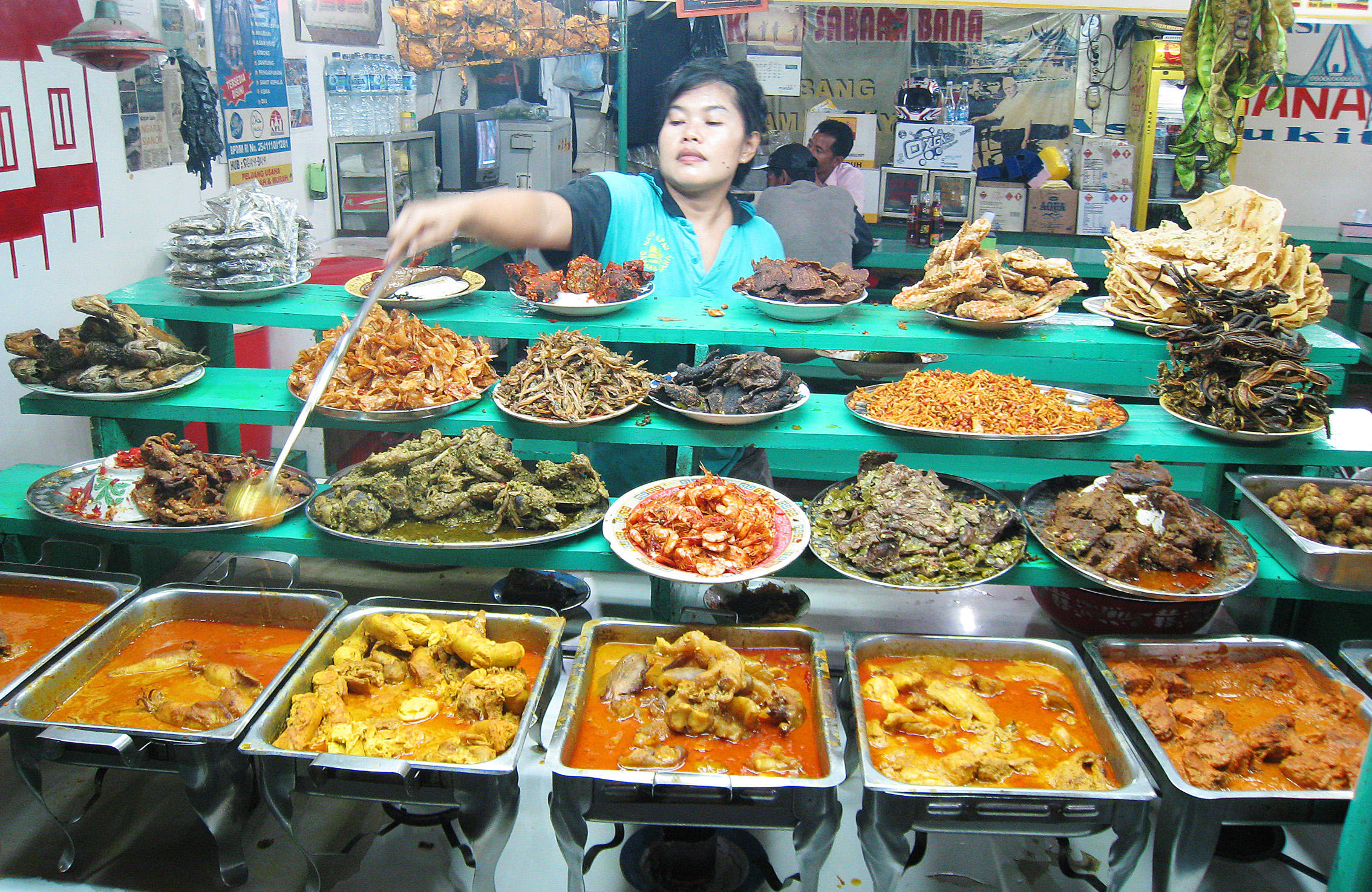 The array dishes of Nasi Kapau Sabana-bana, a Minangkabau Bukittinggi cuisine in Senen, Central Jakarta.